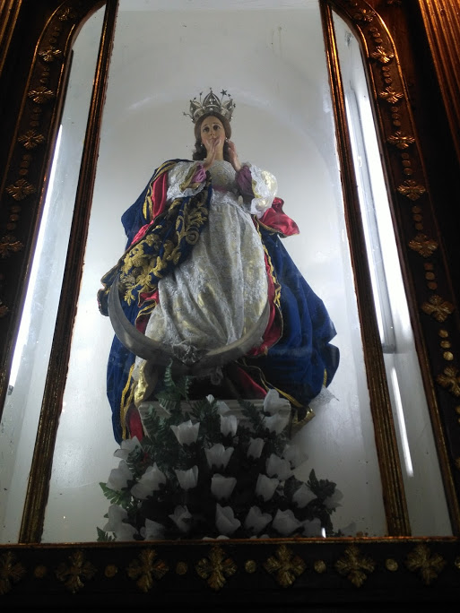 Purísima de la Parroquia San Felipe, León, Nicaragua.